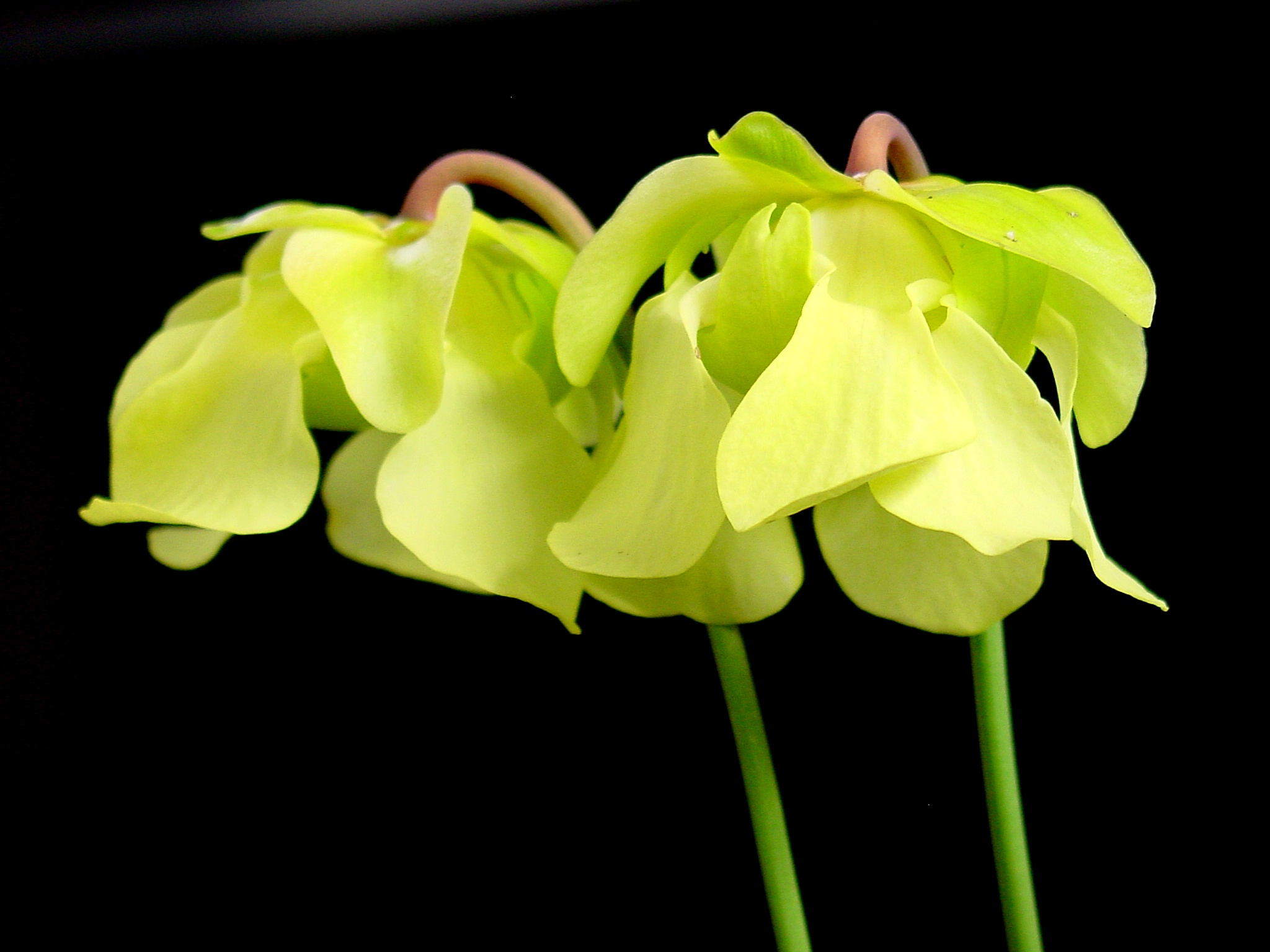 Description: Sarracenia alata flowers Photograph by: Noah Elhardt